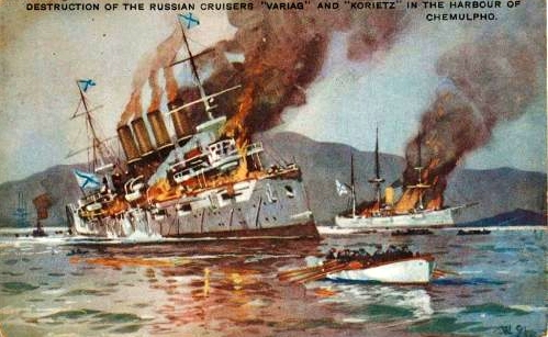 Sinking of Russian cruiser Varyag at Battle of Chemulpo Bay